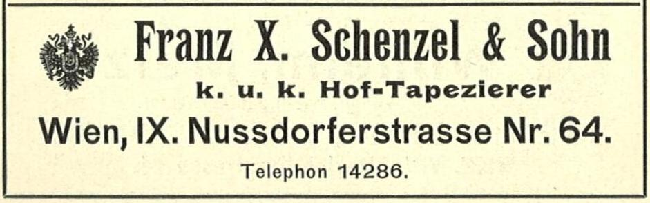 old advertisement of a purveyor to the Imperial and Royal Court of Austria-Hungary.